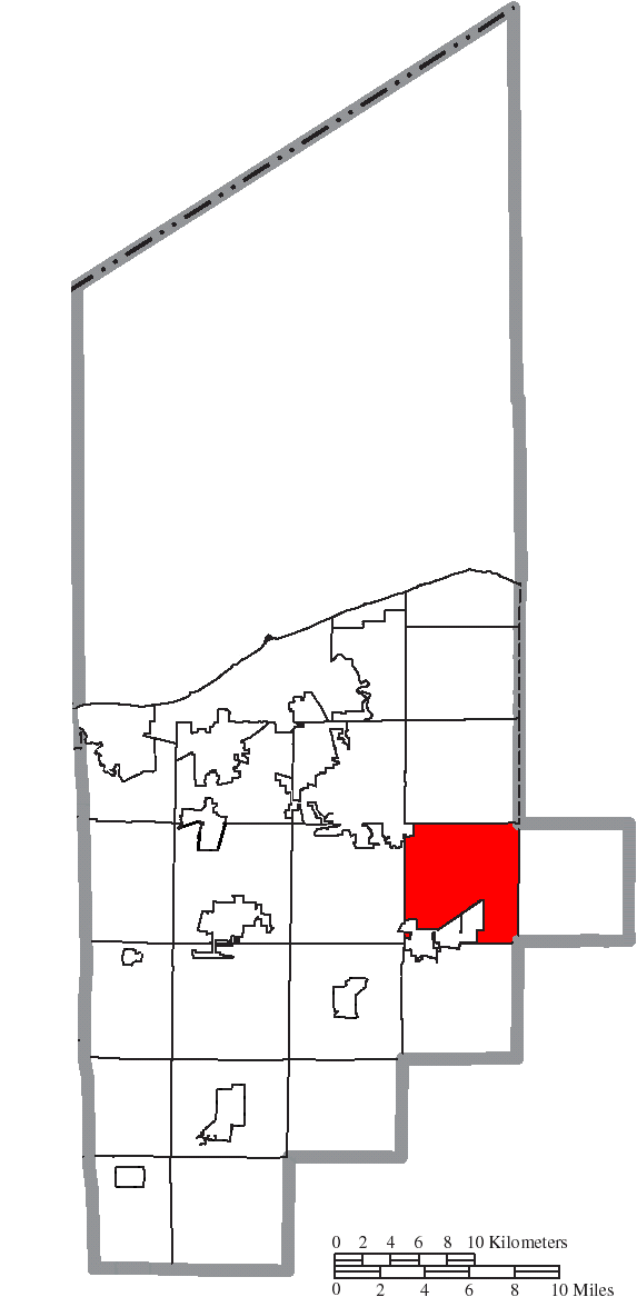 Map of the municipal and township boundaries of Lorain County, Ohio, United States, as of the 2000 census, with the location of Eaton Township highlighted. Township borders are shown only in unincorporated areas in order to differentiate incorporated and unincorporated areas more clearly.